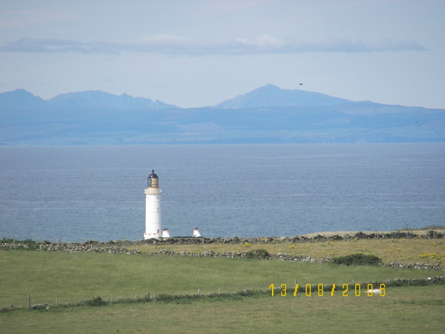 Corsewall Lighthouse from Cairnside Farm